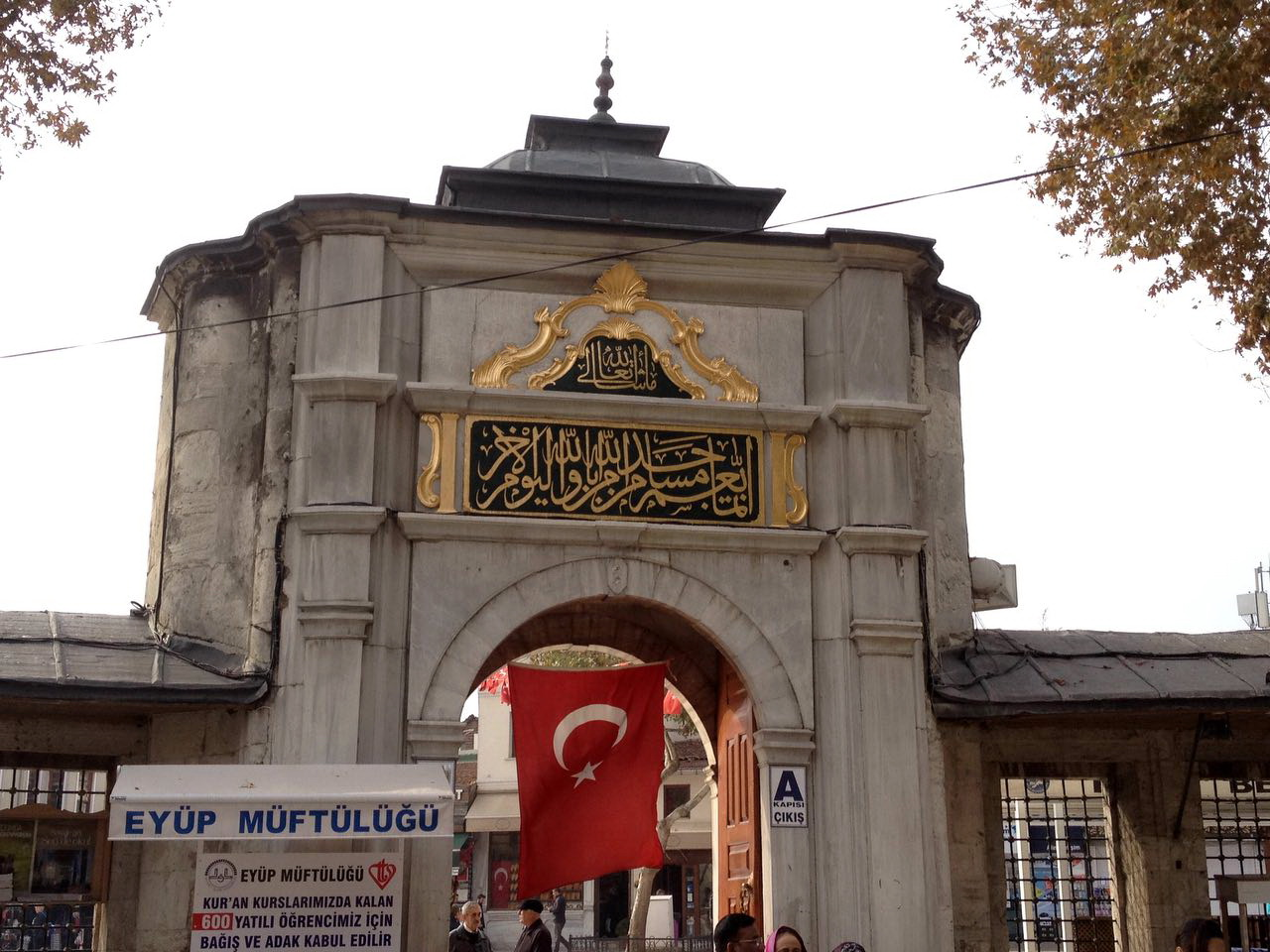 The Eyüp Sultan Mosque is situated in the Eyüp district of Istanbul, outside the city walls near the Golden Horn. The present building dates from the beginning of the 19th century. The mosque complex includes a mausoleum marking the spot where Eyüp (Job) al-Ansari, the standard-bearer and friend of the Islamic prophet Muhammad, is said to have been buried.